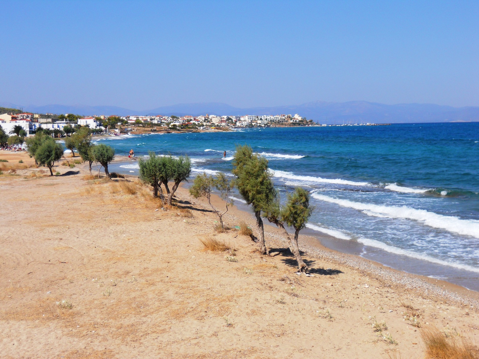 The beach on the Northern shore of the tip of Skala. Megalochori is the village at the other end of the beach